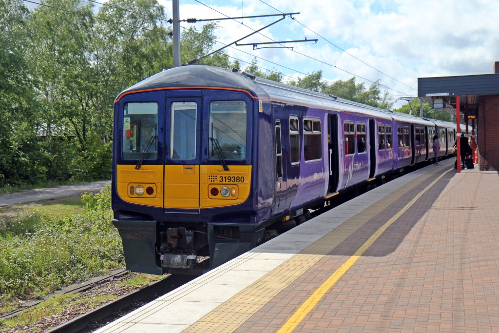 Northern Electrics Class 319, 319380, platform 6, Wigan North Western railway station